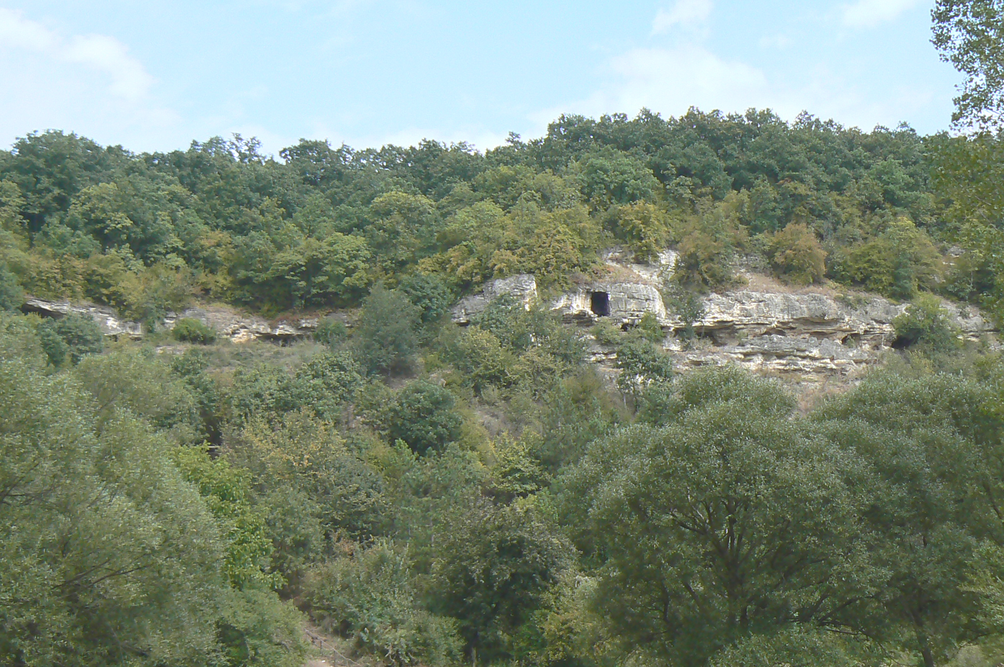 General view of Albotin cave monastery in Vidin District, Bulgaria